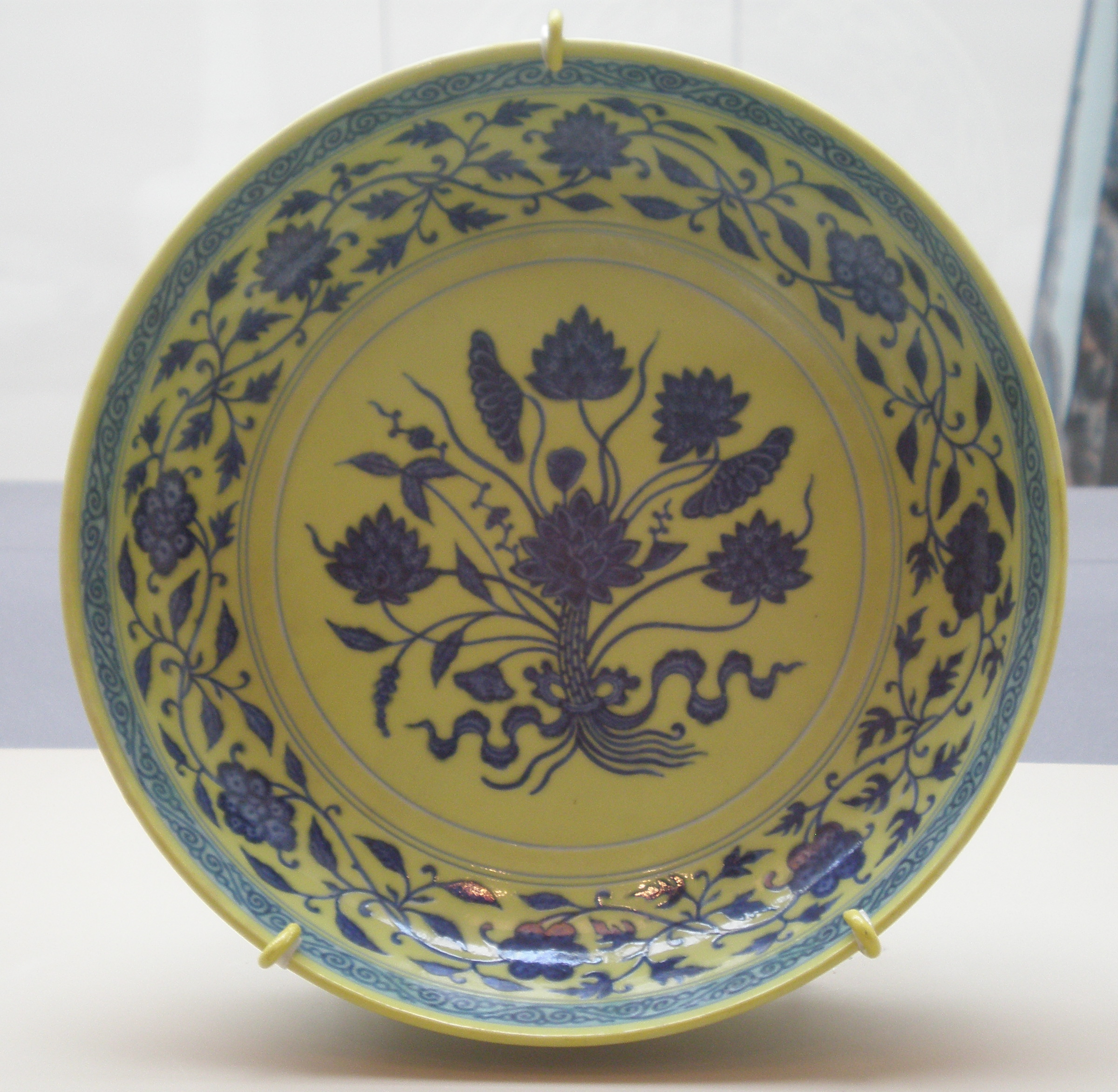 Plate with lotus and water plants, Jingdezhen, Jiangxi Province, Qing Dynasty, reign of the Qianlong emperor (1736-95). On display at the Asian Art Musem of San Francisco. B60P1675